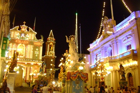 Hal Ghaxaq's main square(Saint Mary square) lit and decorated during the yearly festive week in honour of the Patron Saint of the village Saint Mary, popularly known as "SANTA MARIA" from the 9th to the 15th of August.The church is on the left while the blue lit building is the magnifecent band club of the same feast, called "PALAZZ SANTA MARIJA" meaning "Saint Mary's Palace". Malti: Il-pjazza ewlenija ta' Hal Ghaxaq kif tkun armata u mixghula fil-gimgha tal-festa Titulari tar-rahal mid-9 sal-15 t'Awwissu f'gieh il-Patruna tar-rahal Marija Mtghella s-Sema maghrufa bhala Santa Marija.